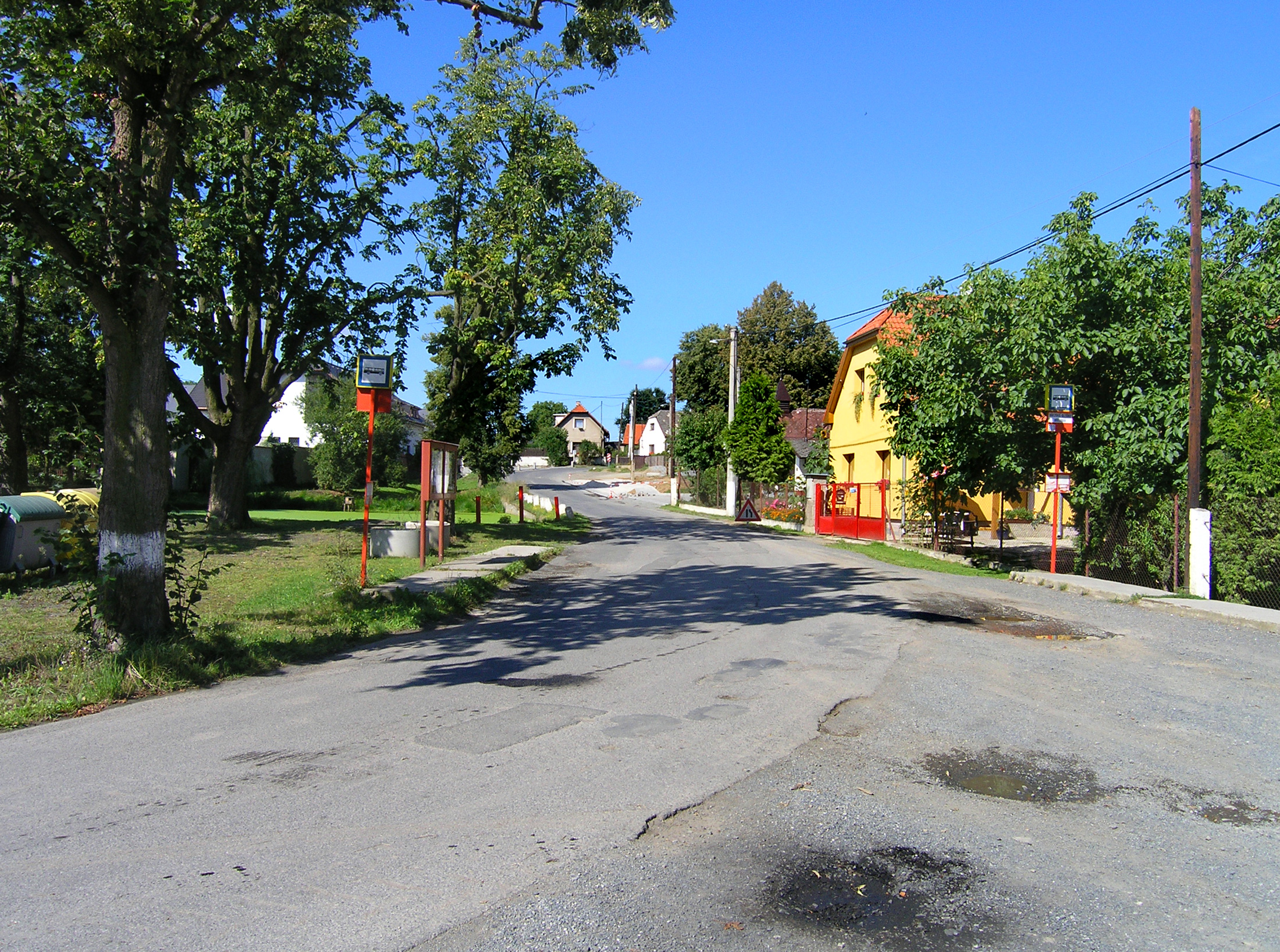 Common by Hlavní street in Březová-Oleško, Czech Republic